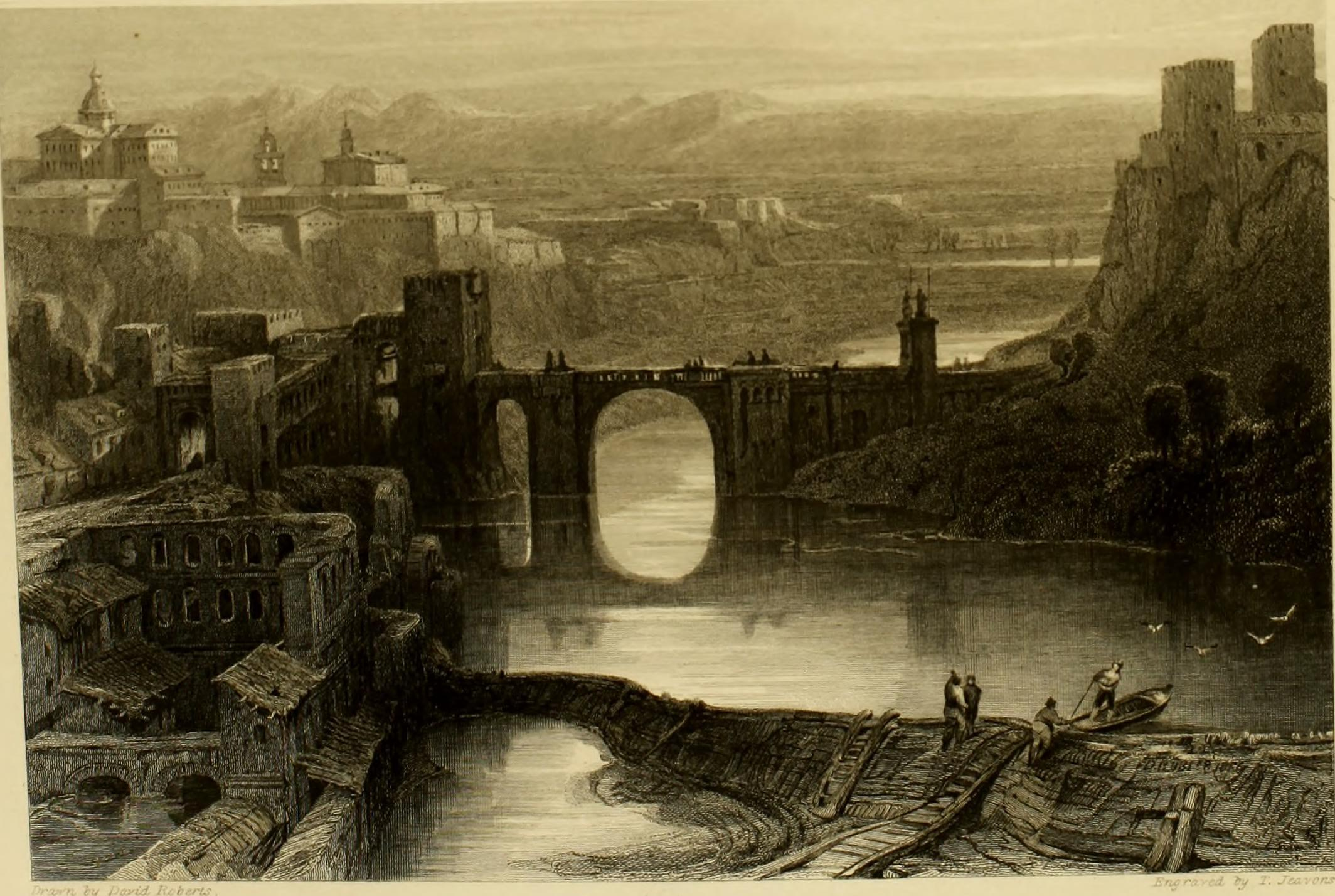 Title: Picturesque views in Spain and Morocco : comprising Granada, with the palace of the Alhambra, Andalosia, Castile, Valencia, Gibraltar, Tangiers, Tetuan, Morocco, the town of Constantina, etc. Year: 1838 (1830s) Authors: Roberts, David, 1796-1864 Roberts, David, 1796-1864, signer. UPB Subjects: Publisher: London : Robert Jennings Text Appearing Before Image: ' Text Appearing After Image: '